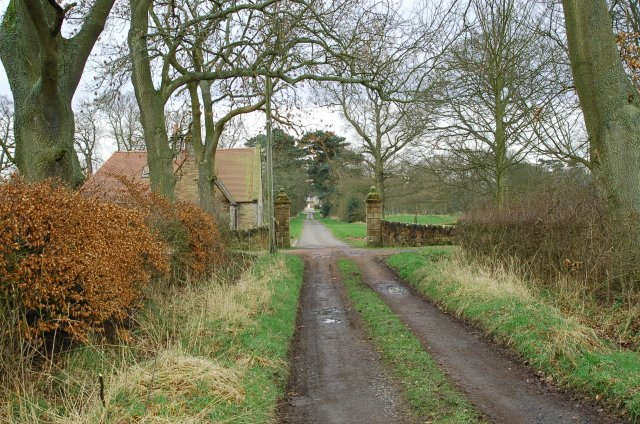 North drive, Balcaskie. North drive and gatehouse, Balcaskie.